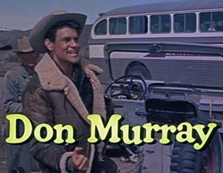 Screenshot of Don Murray from the trailer for the film Bus Stop